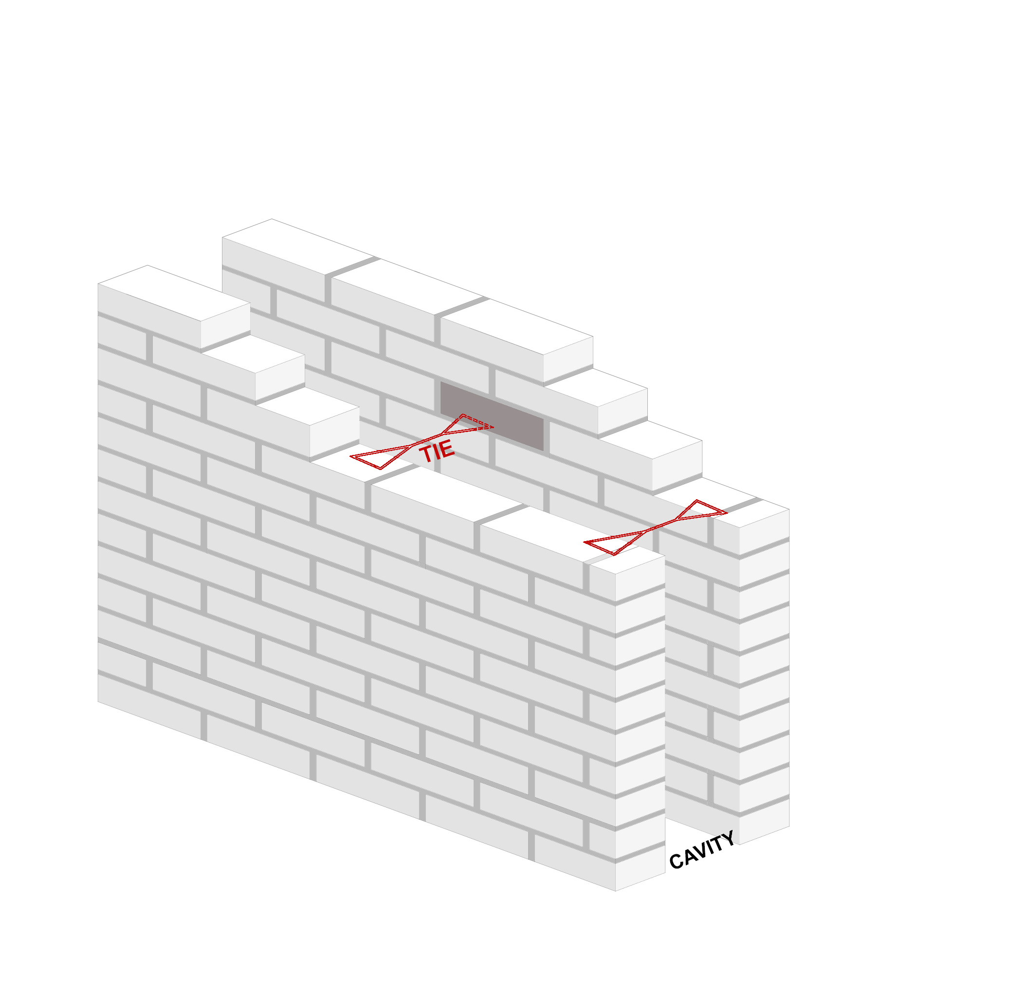 CAVITY WALL TIE Description